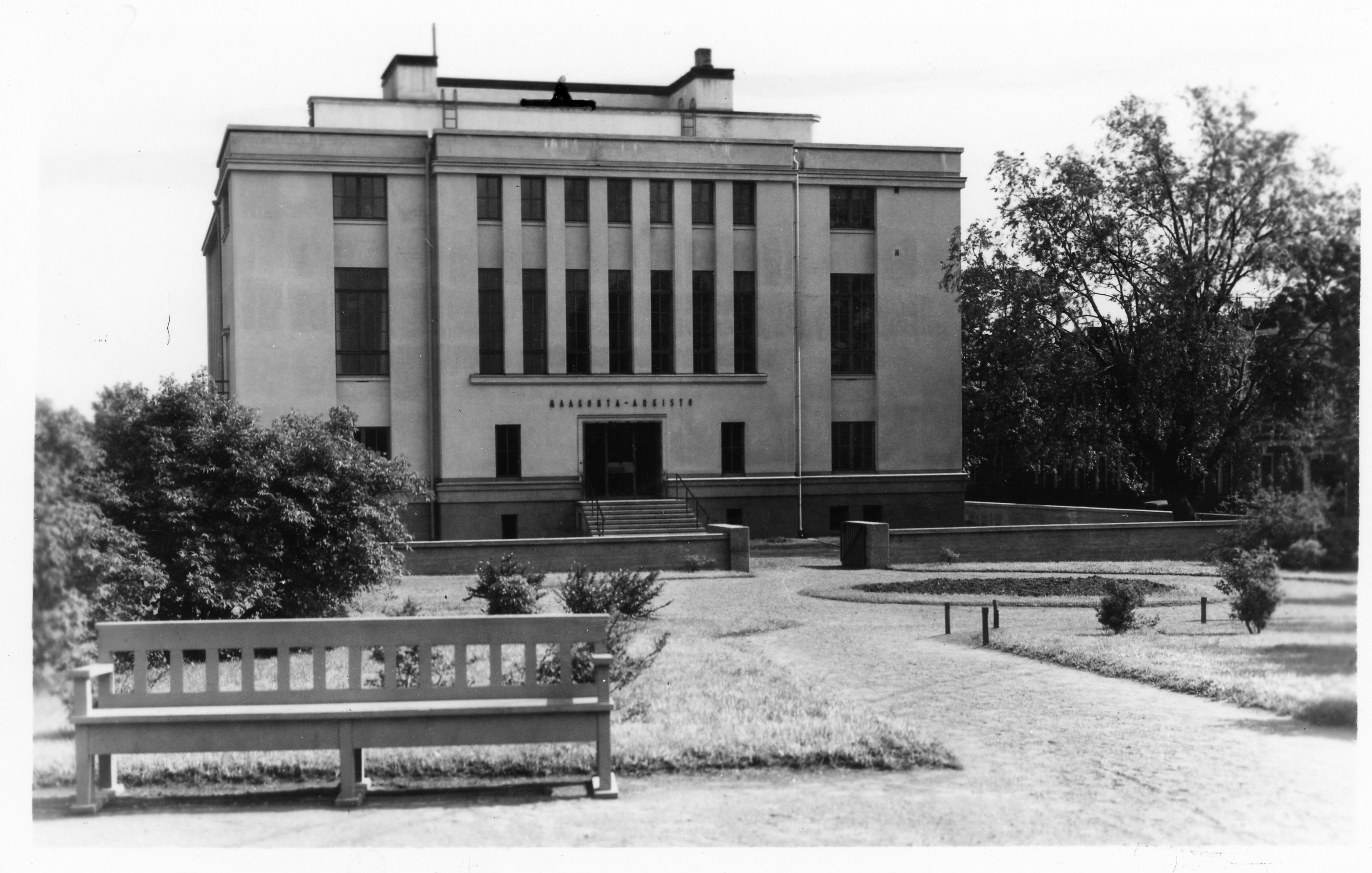 Vyborg Provincial Archives on a postcard.